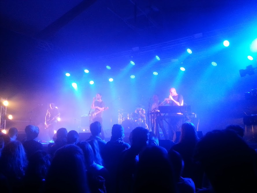 Ensími at Neskaupstaður